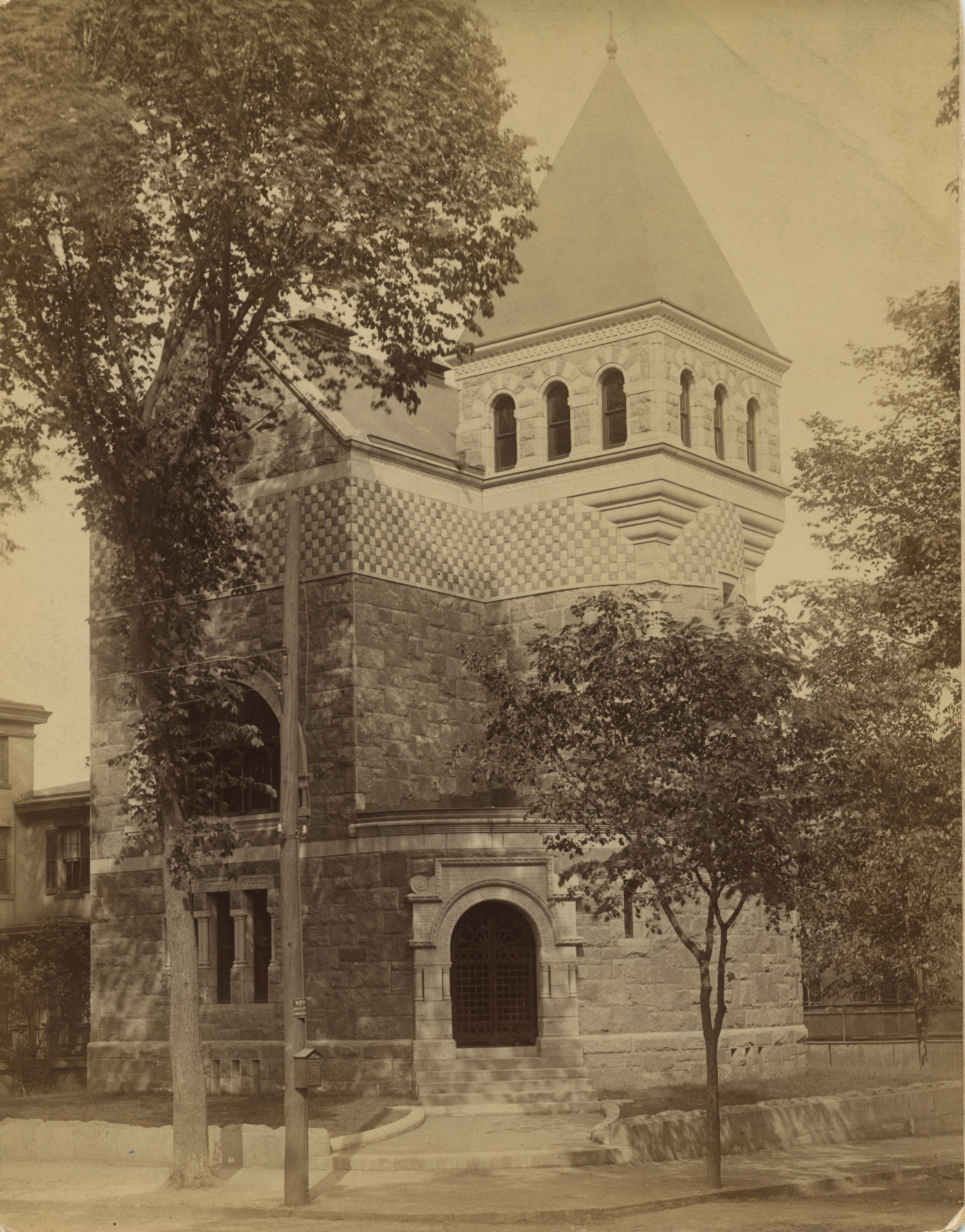 Heins & LaFarge, 1894-1913, St. Anthony Hall Sigma Chapter, New Haven. Reproduced from vintage photo prior to 1906 in my collection. (Other Hall photos -- e.g. the postcard dated 1906 -- show a dormitory on the left that was not yet built at the time this photo was taken.)